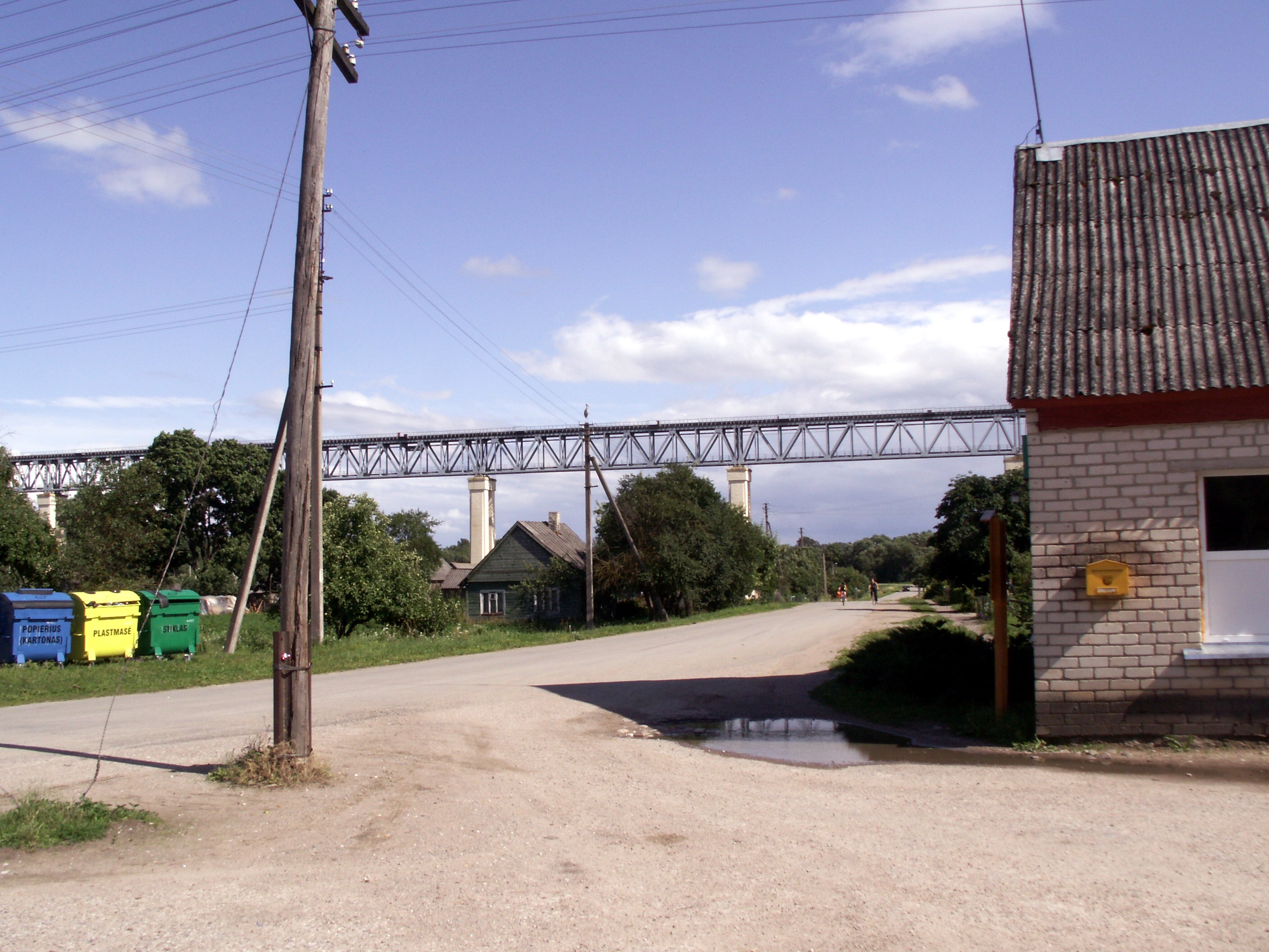 Lyduvėnai